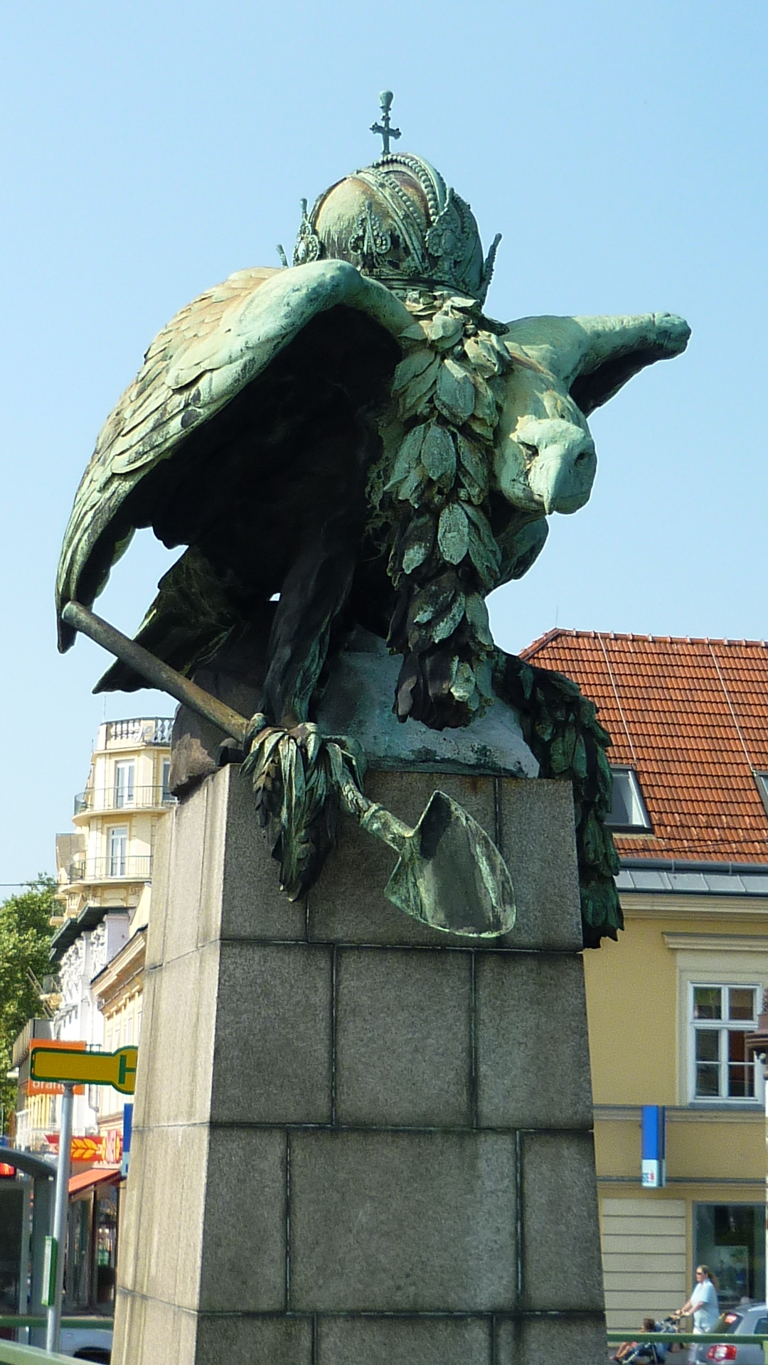 Historical stone pillar, bearing a metal eagle carrying the Imperial crown, from former Hietzing Bridge, transferred to actual Kennedy Bridge in Vienna, linking 13th and 14h districts over the Wien river